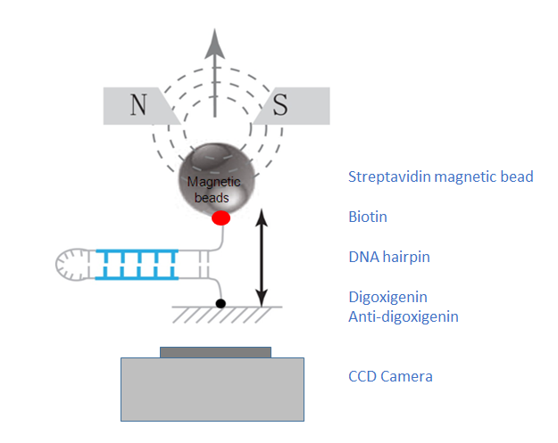 Setup for magnetic bead, hairpin, glass slide, and camera